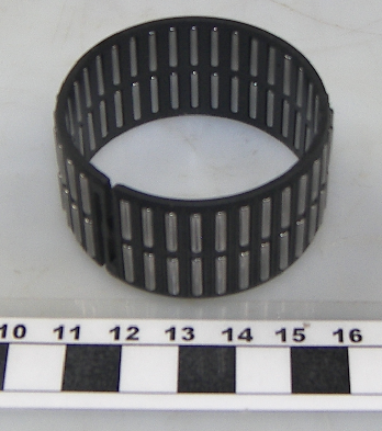 Needle roller bearing